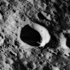 Oblique view of Hayford, on the far side of the moon, facing north.